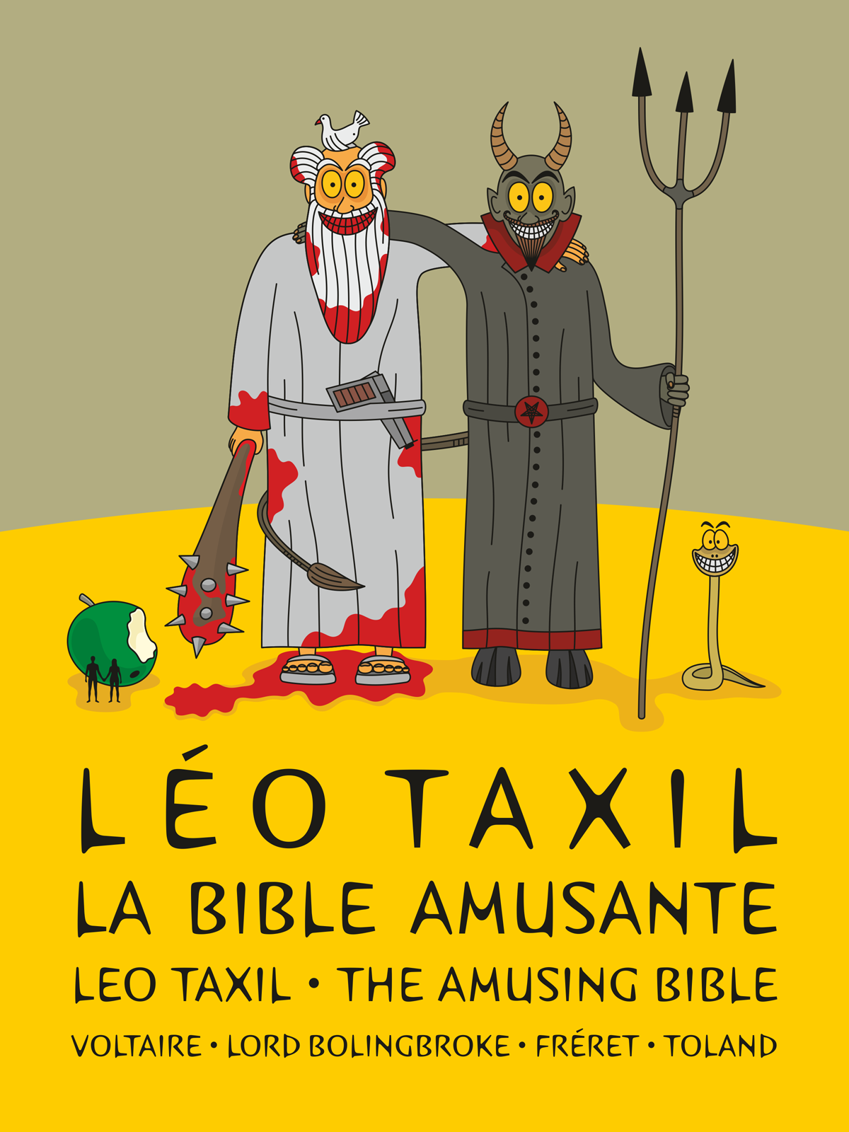 Leo Taxil - The Amusing Bible - French Cover